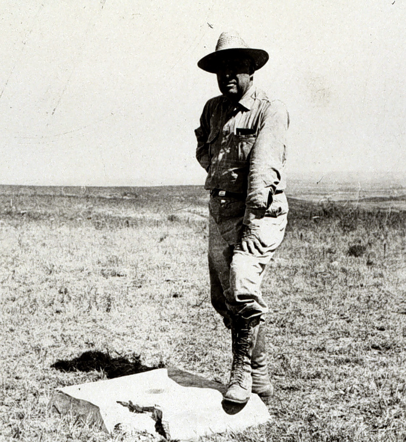 Triangulation station at Meade's Ranch. Control point for the North American Datum